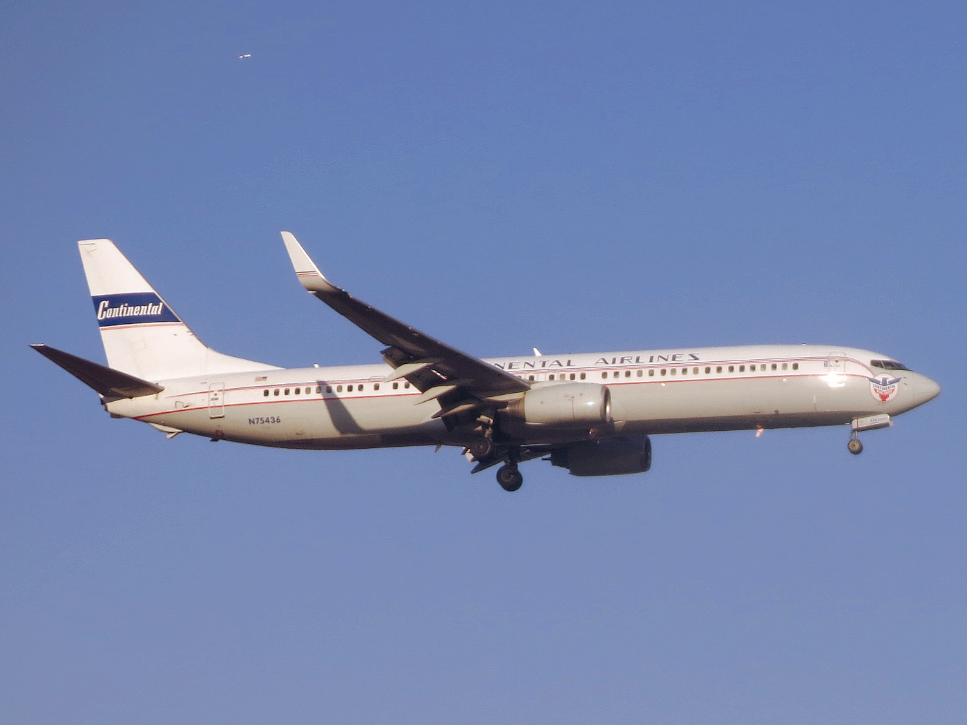 A United Airlines Boeing 737-900(ER) plane wearing a retro Continental Airlines livery is on final approach to Newark Liberty International Airport Runway 22L